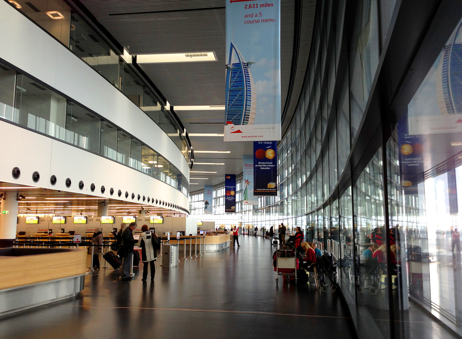 Skylink interior